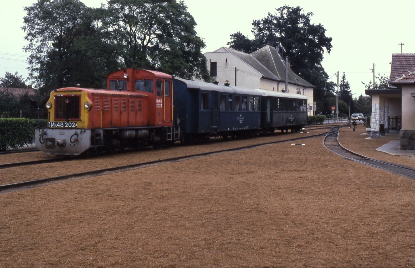 An enjoyable few hours was spent covering the 760mm narrow gauge branches from Nyíregyháza in September 1996. All trains were worked by Mk48 locos and the familiar green stock with wooden seats. The terminus station at Dombrád was immaculately kept as seen in this view.